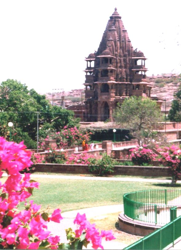 This picture is one of my own collections of THE DEVAL (CENOTAPH) AT MANDORE GARDEN (JODHPUR, RAJASTHAN, INDIA). JODMAR